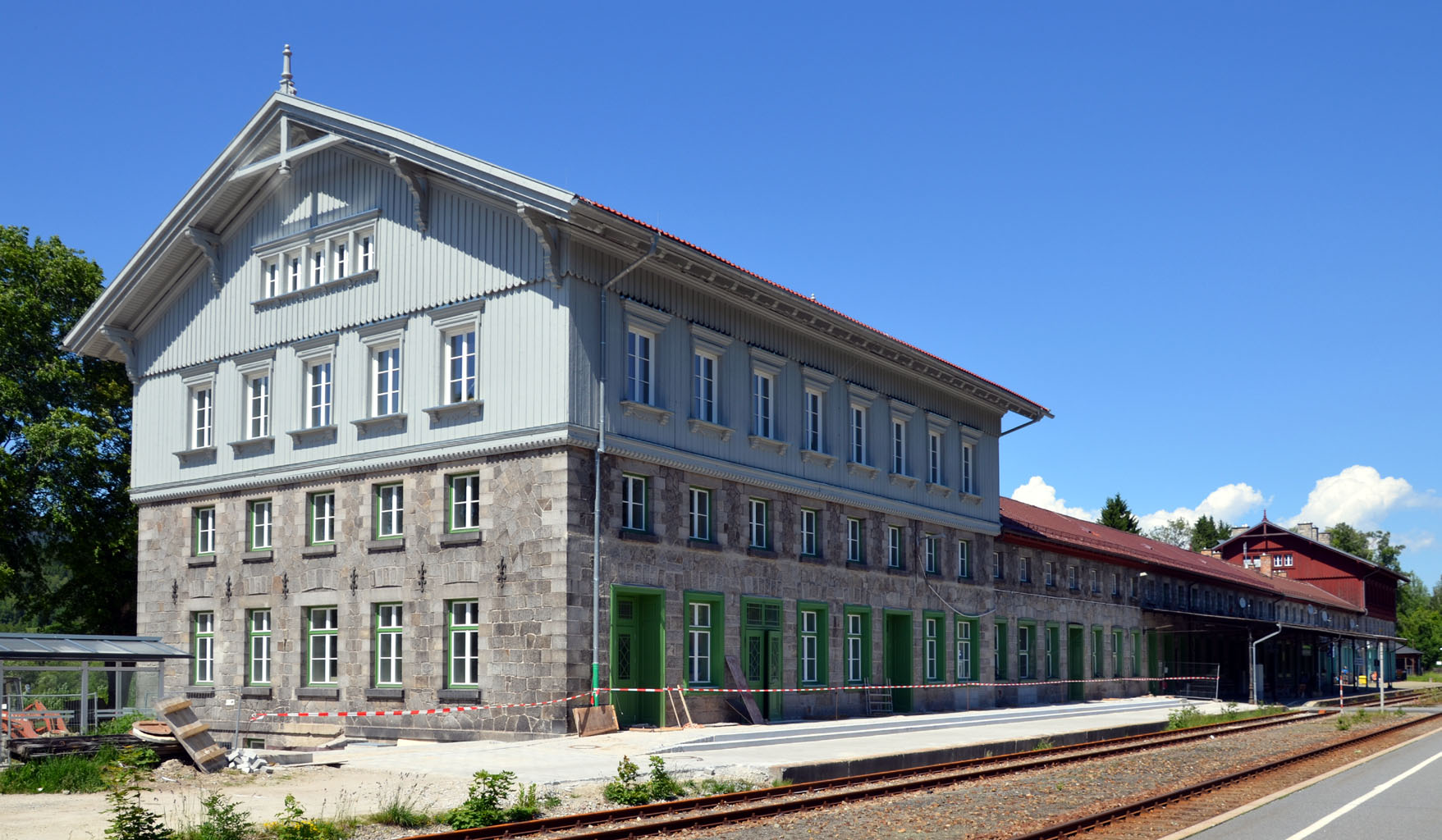 Bayerisch Eisenstein / Železná Ruda-Alžbětín train station, German wing in the front, Czech wing in the background.